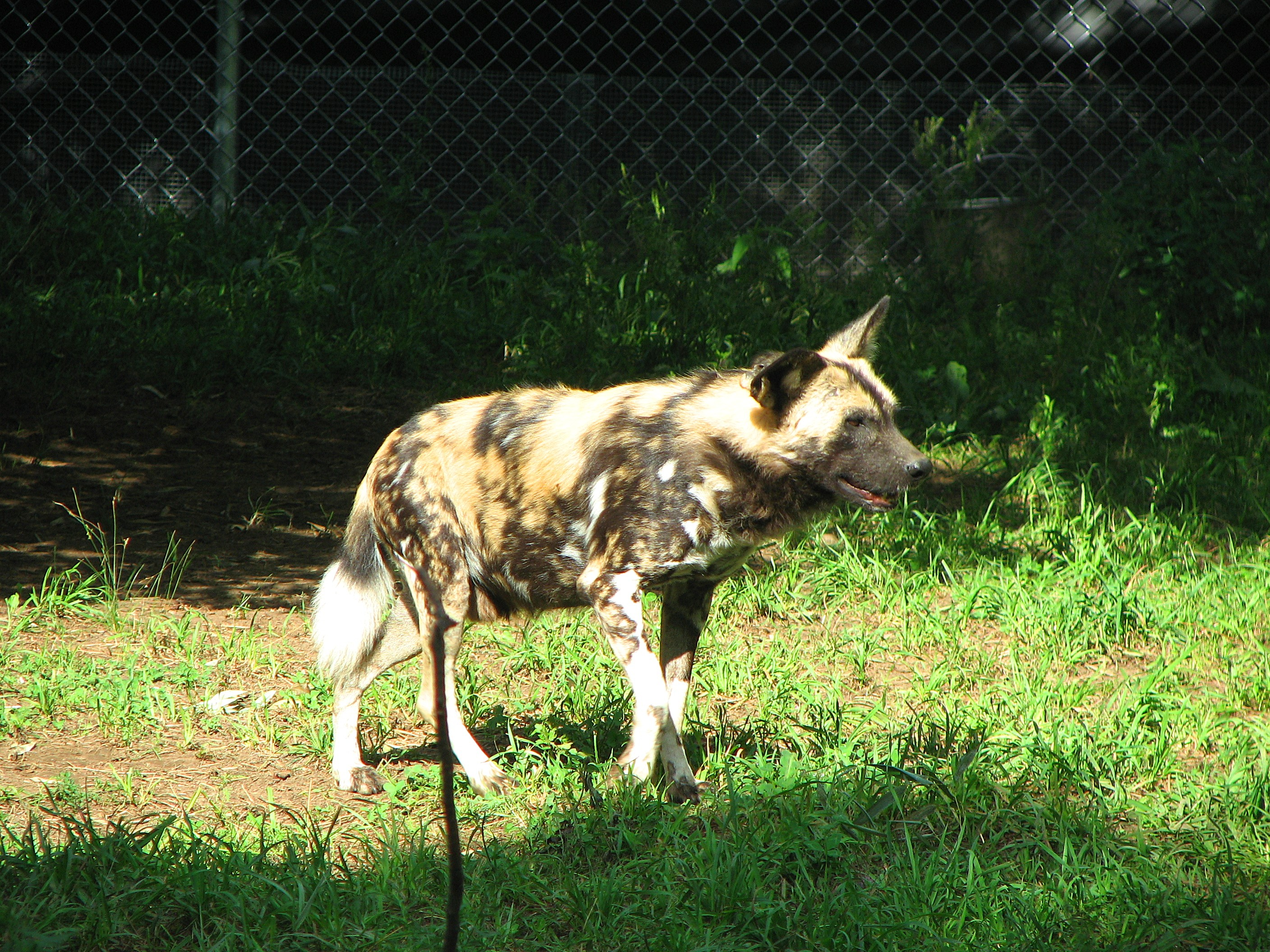 Roger Williams Zoo, Providence, RI.